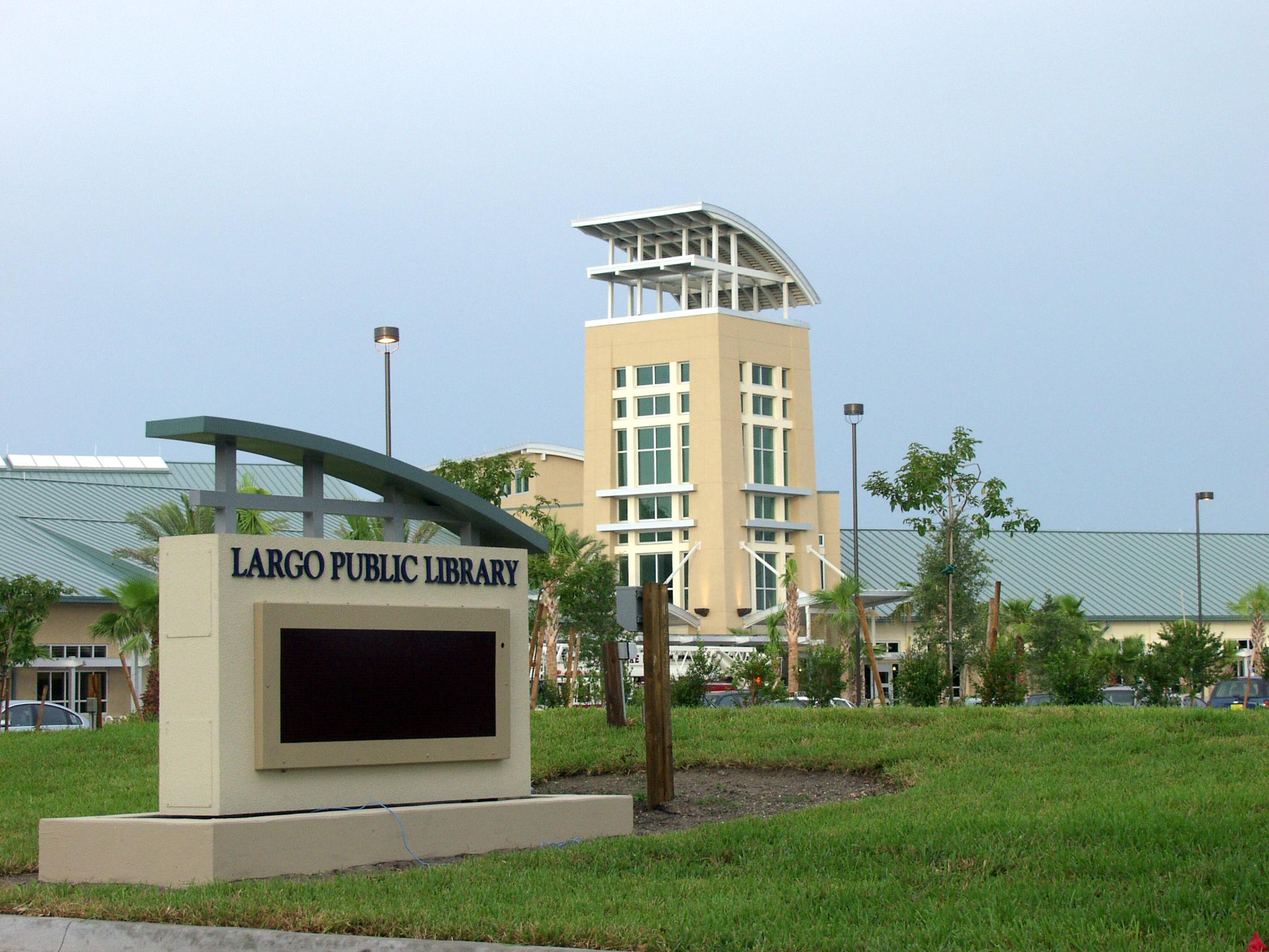 Largo, Florida's new 90,000+ sq ft public library, opened July 31st, 2005. (2005-08-05T1925EDT; Olympus E-10; 19mm; 1/320@f/4, ISO 80; photoedited in Picasa)